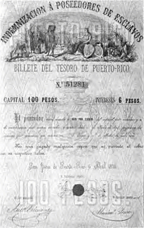 Indemnity bond paid as compensation to former owners of freed slaves as compensation. Summary An 1873 indemnity bond paid as compensation to former owners of freed slaves in Puerto Rico. Source and Available online at Previously published in Miller, Paul Gerard. Historia de Puerto Rico. Chicago: Rand McNally, 1922, p301. LC CALL NUMBER: F 1971 .M64